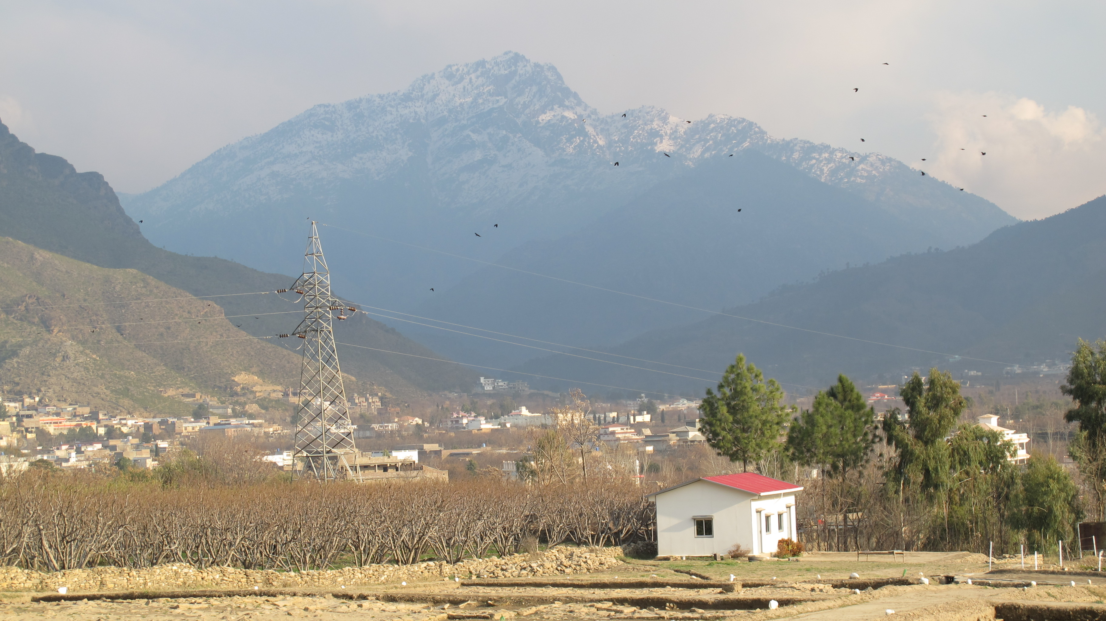 Barikot Ghundai This is a photo of a monument in Pakistan identified as the KPK-80